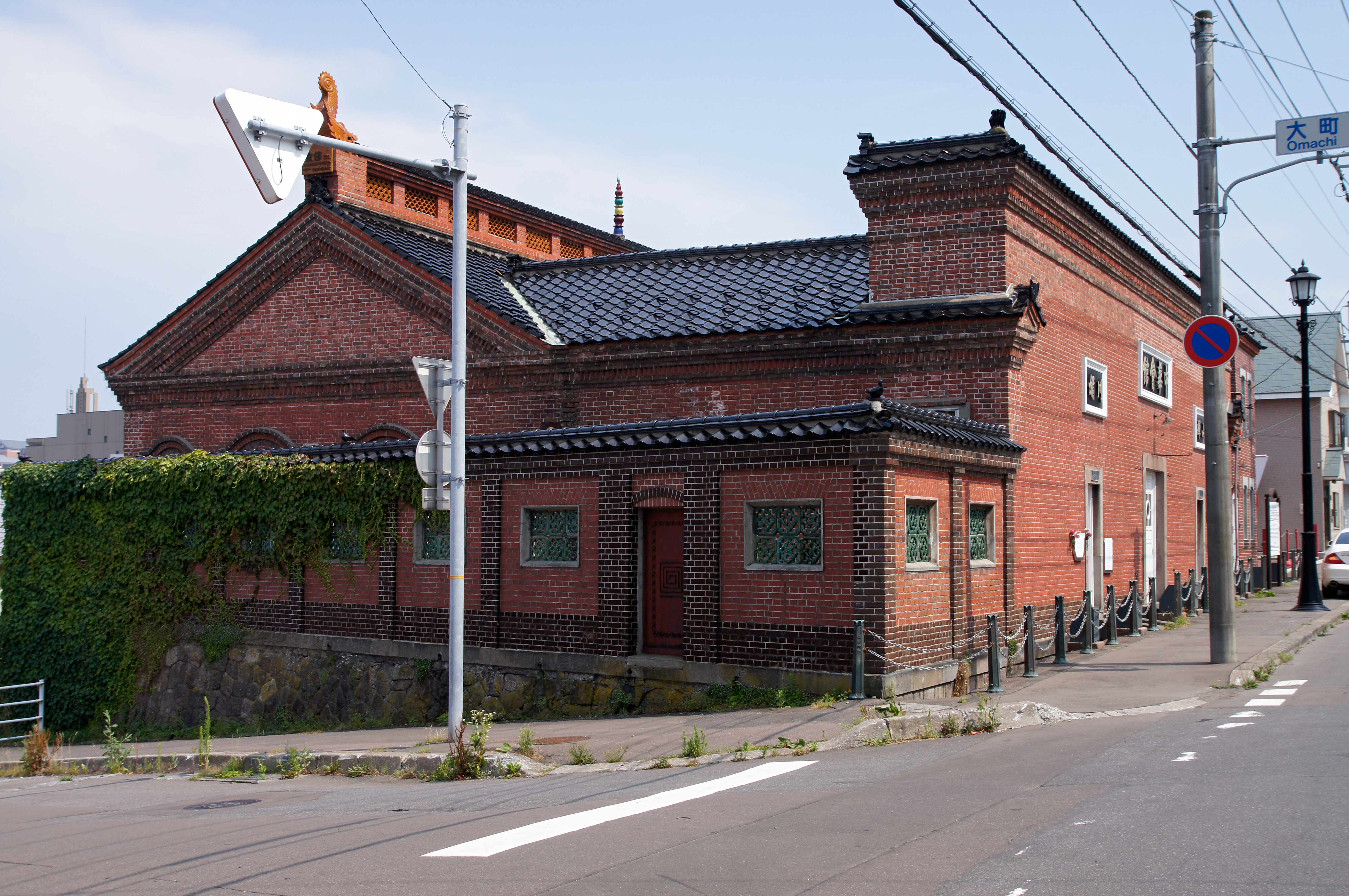 Chinese Memorial Hall in Hakodate, Hokkaido prefecture, Japan